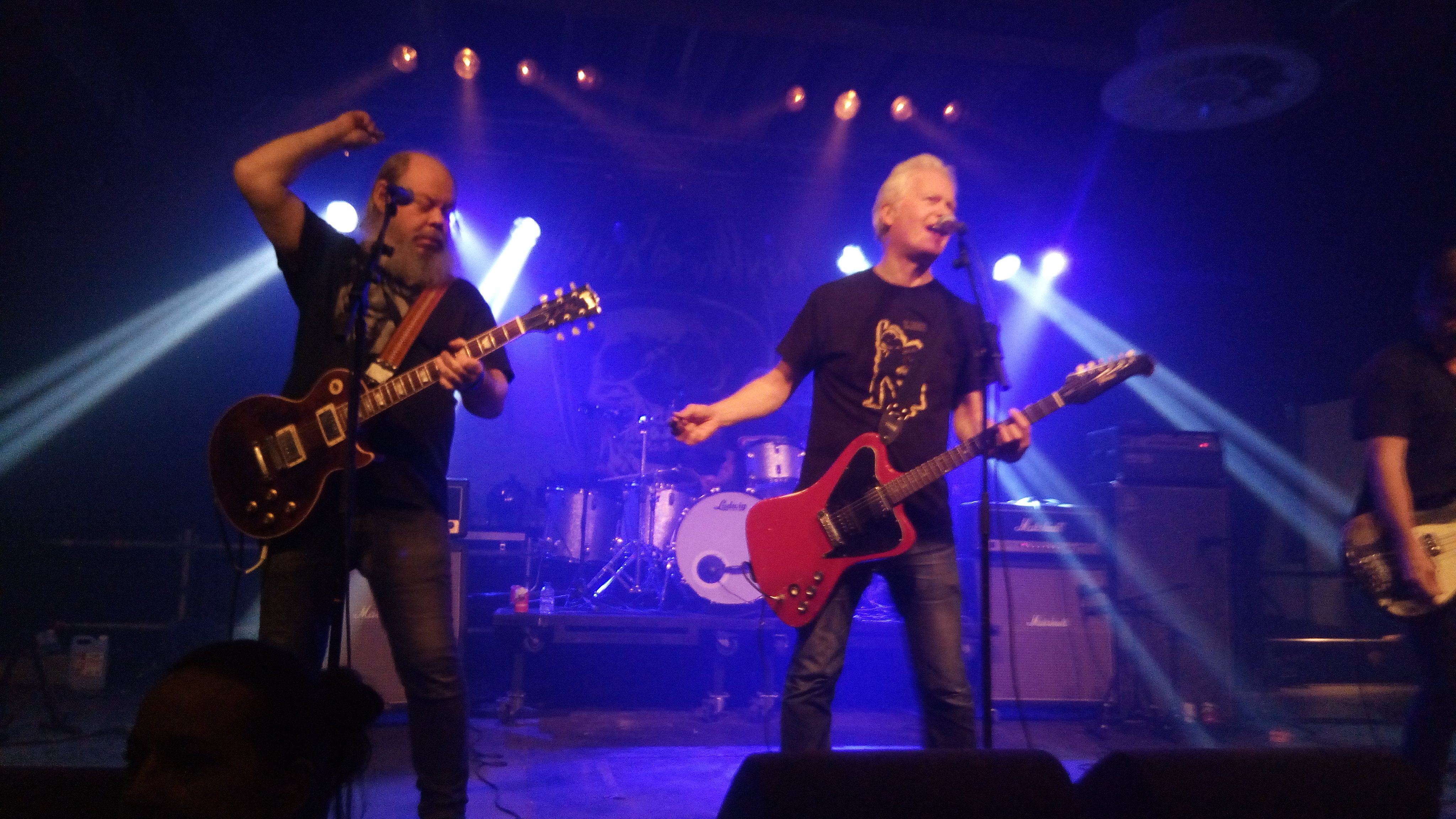 The Nomads - Faster and Louder Festival - 17 March 2018 - Klokgebouw Eindhoven Netherlands